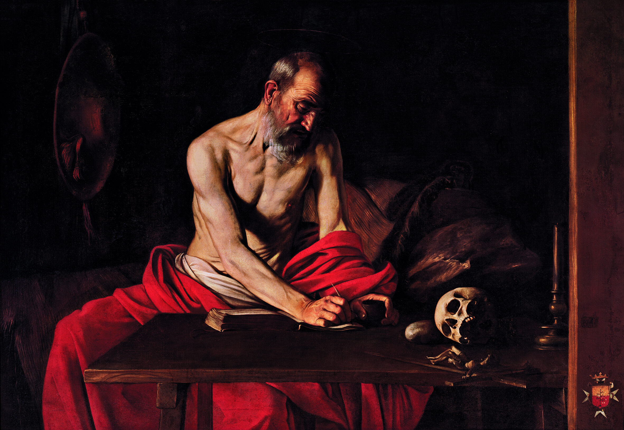 St Jerome